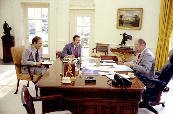 Dick Cheney, Donald Rumsfeld and President Gerald Ford in the Oval Office, 4/22/75